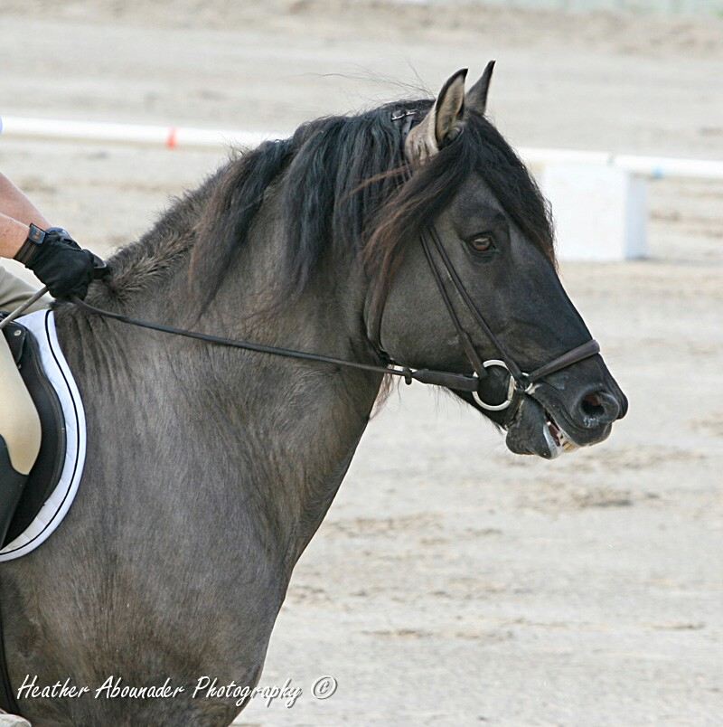 Image By HEather Abounader